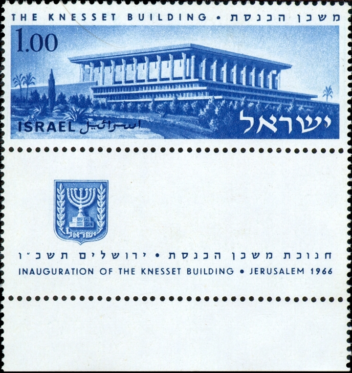 The Knesset